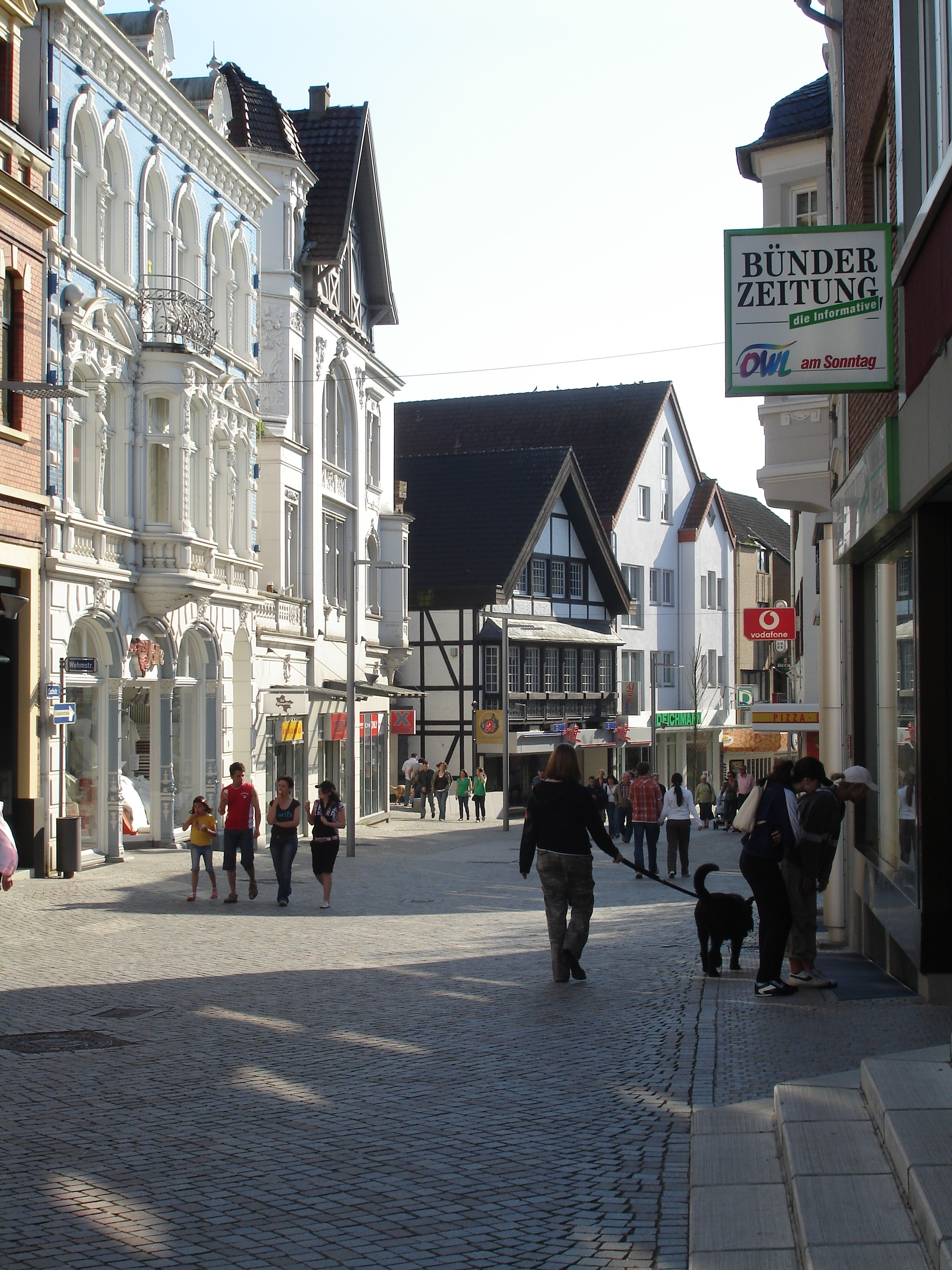 Town of Bünde, District of Herford, North Rhine-Westphalia, Germany: Eschstrasse